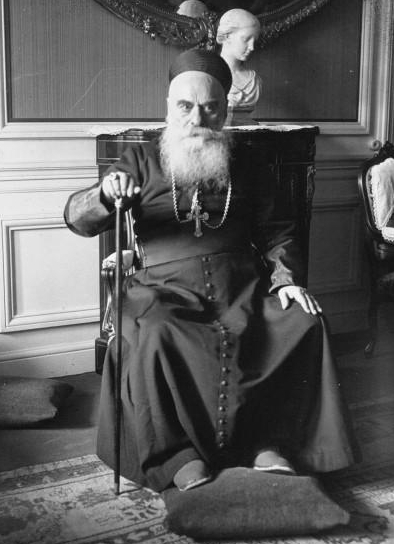 Maronite patriarch Elias Peter Hoayek (1843-1941).